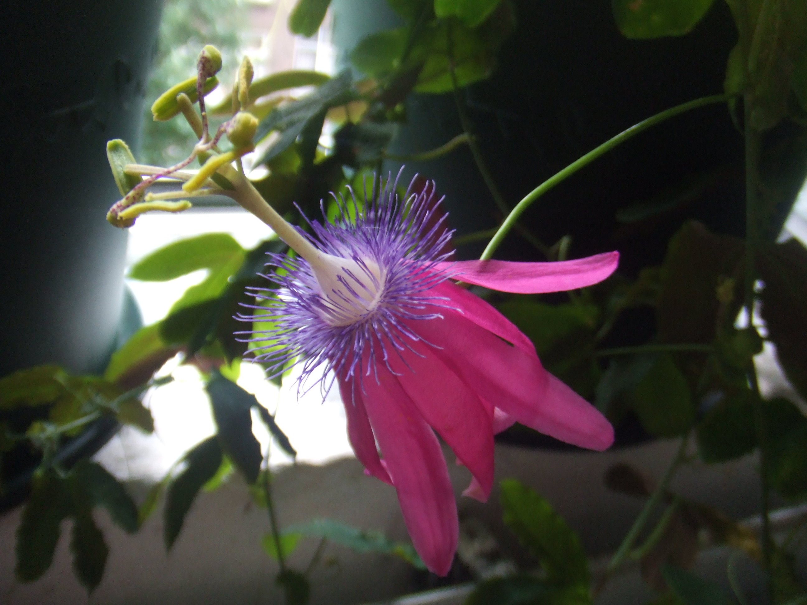 Passiflora kermesina, own collection